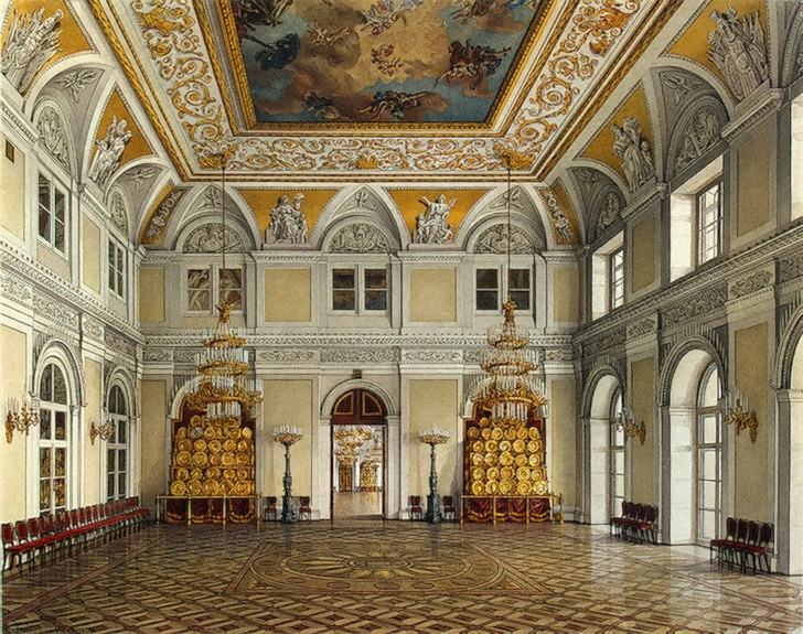 The Great Ante-Chamber of the Winter Palace